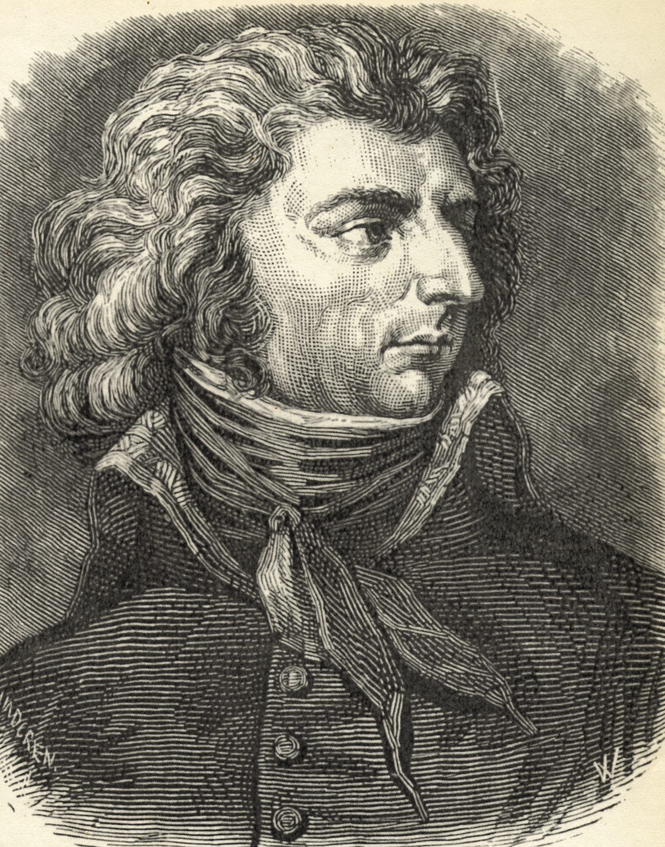 french general Jean-Baptiste Bernadotte